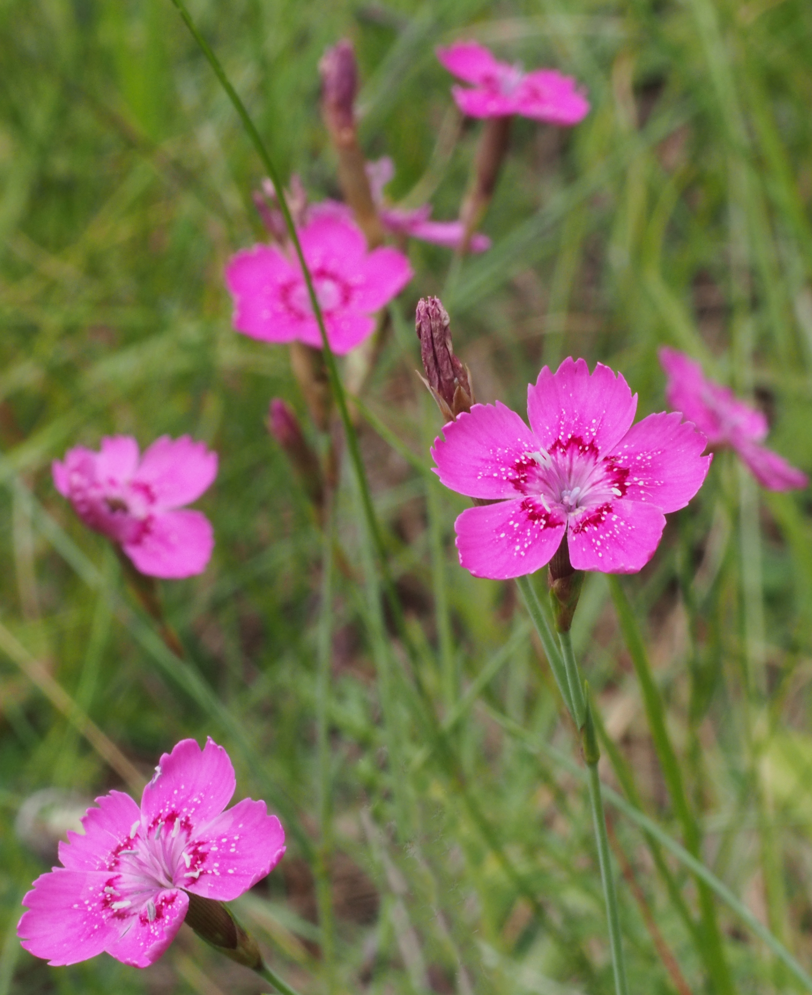 Dianthus deltoides, Heidekreis, Lüneburg Heath, Lower Saxony, Germany